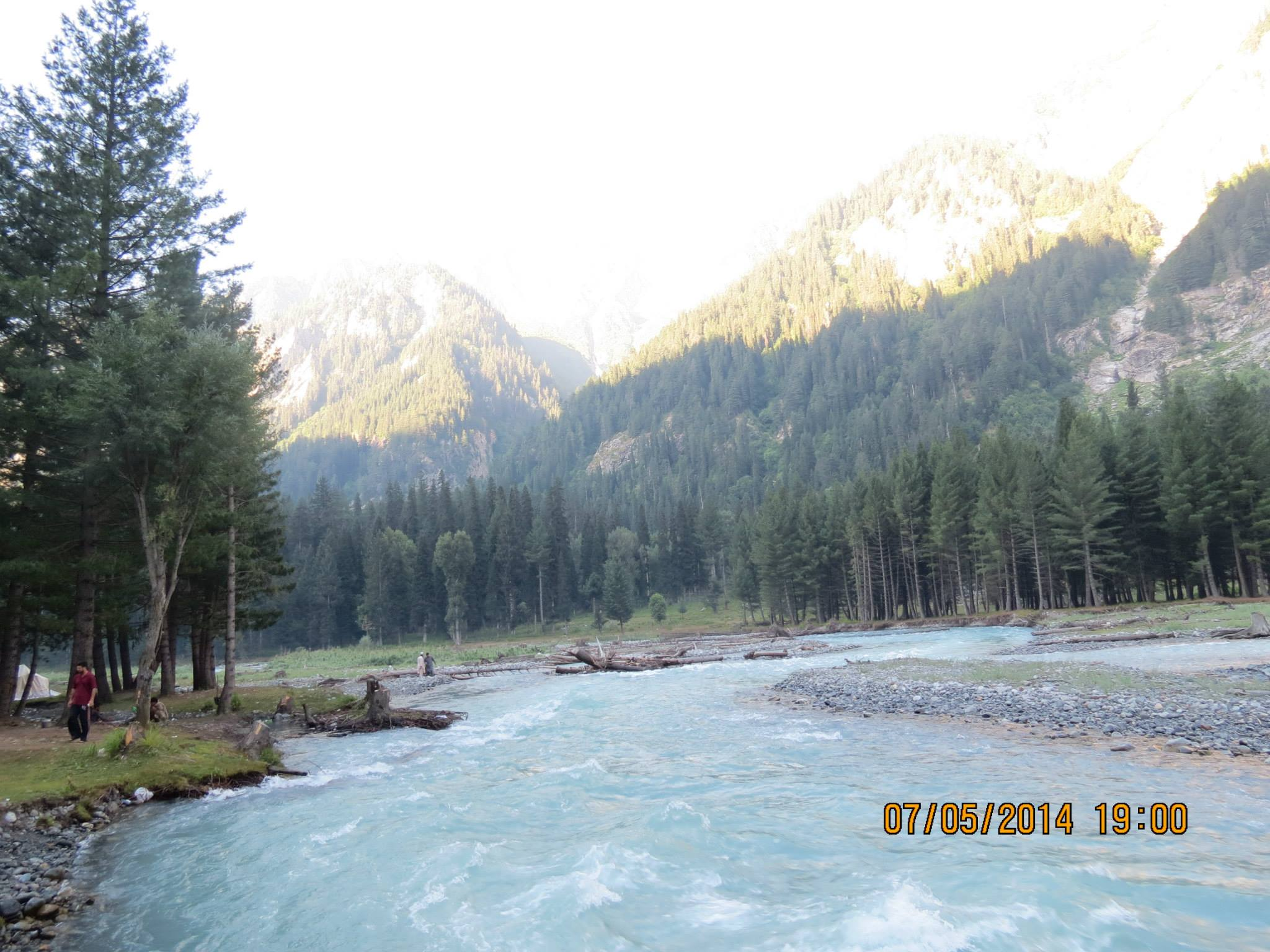 Panjkora river Tormang